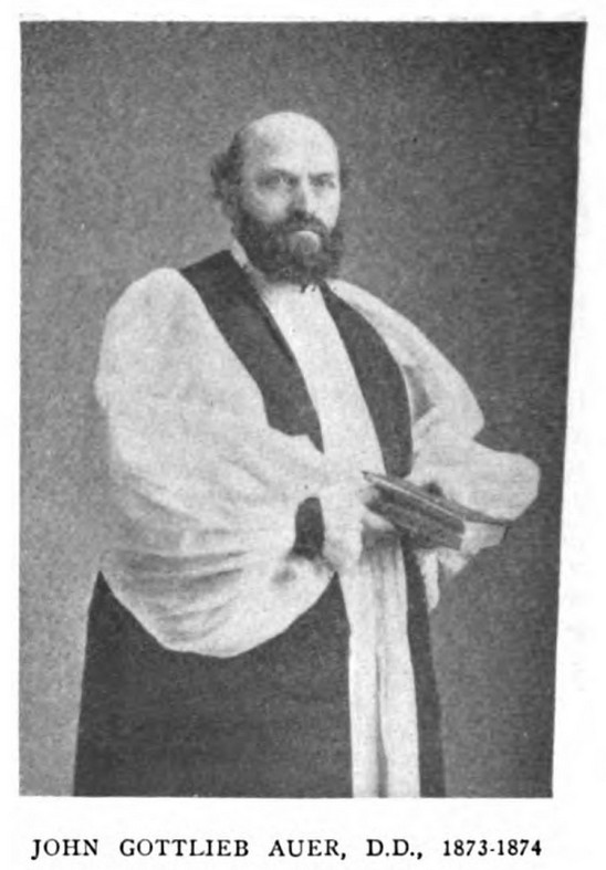 “Bishop John Gottlieb Auer ”. Illustration from Forth Journal